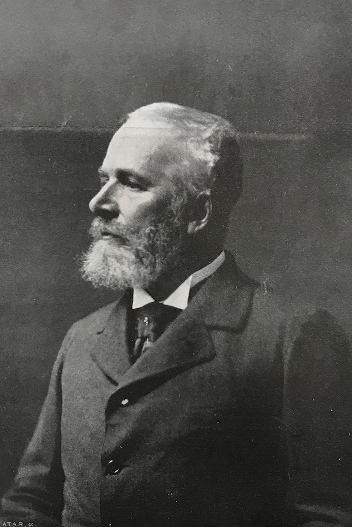 Swiss Ambassador